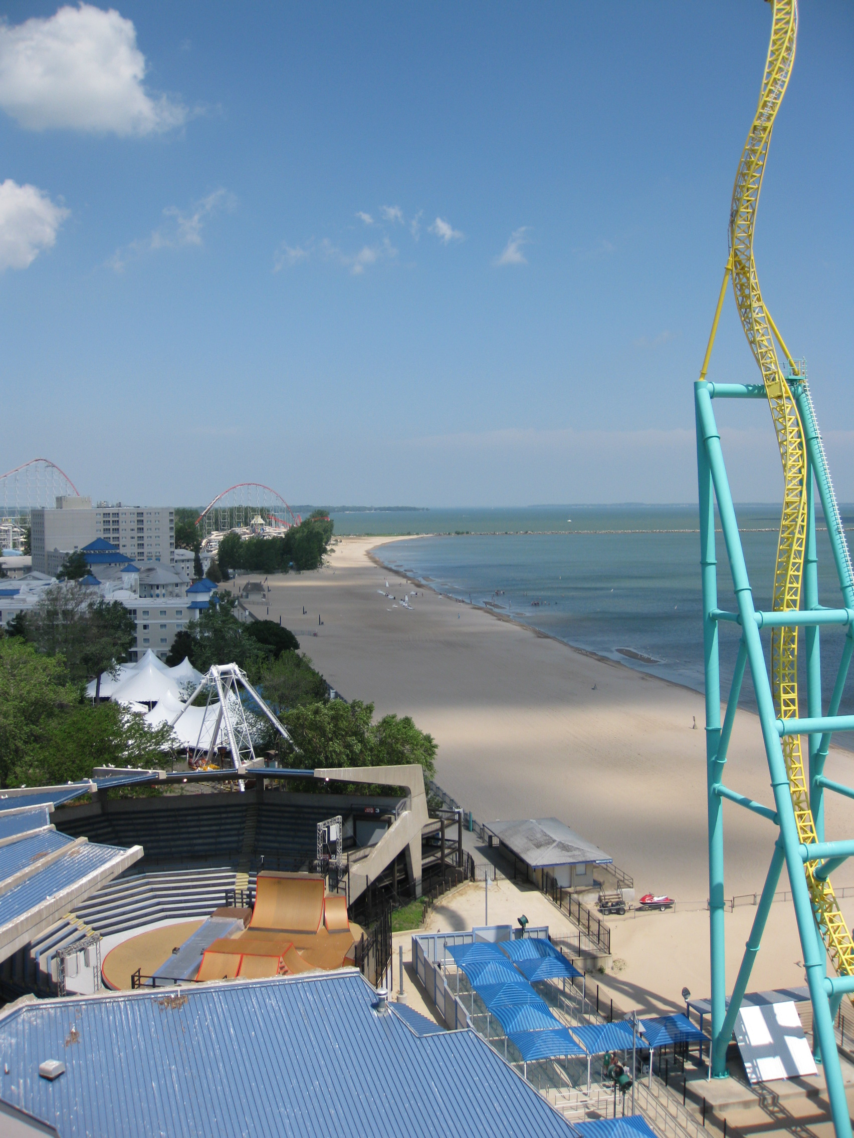 Notice the dark spot in the beach, it is shadow from the clous, amazing view as the color of beach changes.